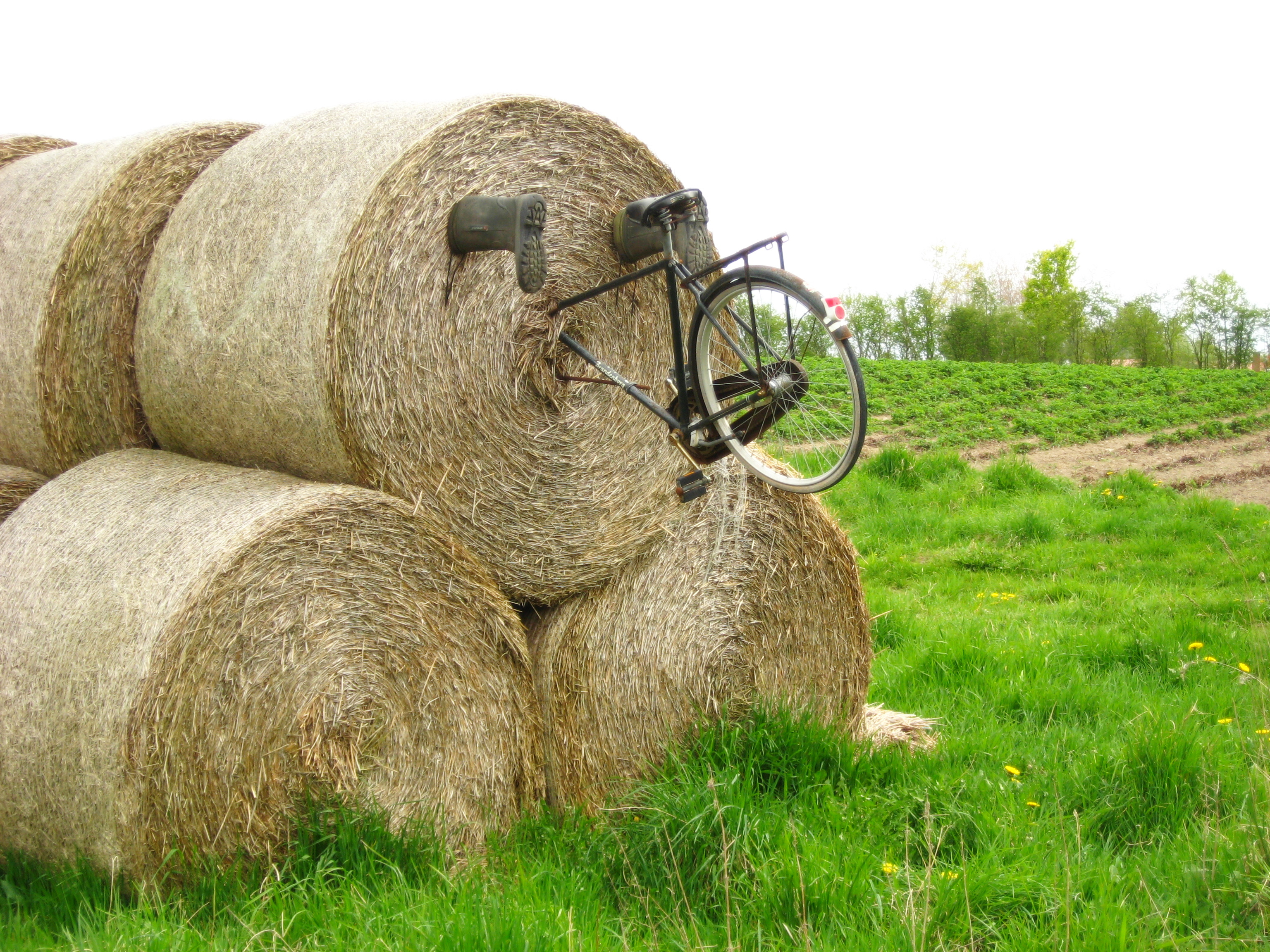 cycling in Denmark